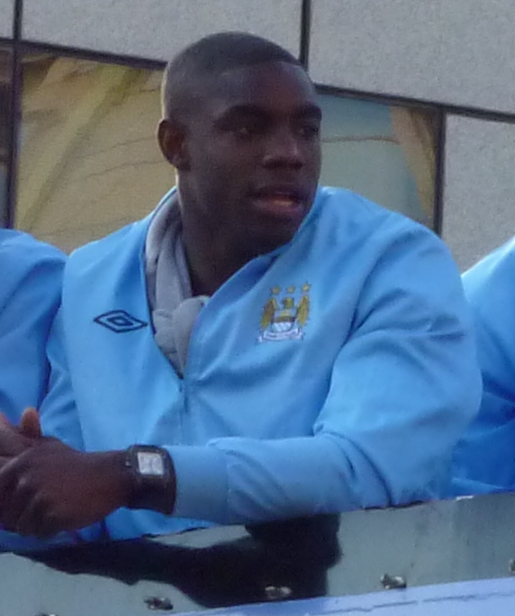 Micah Richards during Manchester City's Premier League victory parade, 14 May 2012.